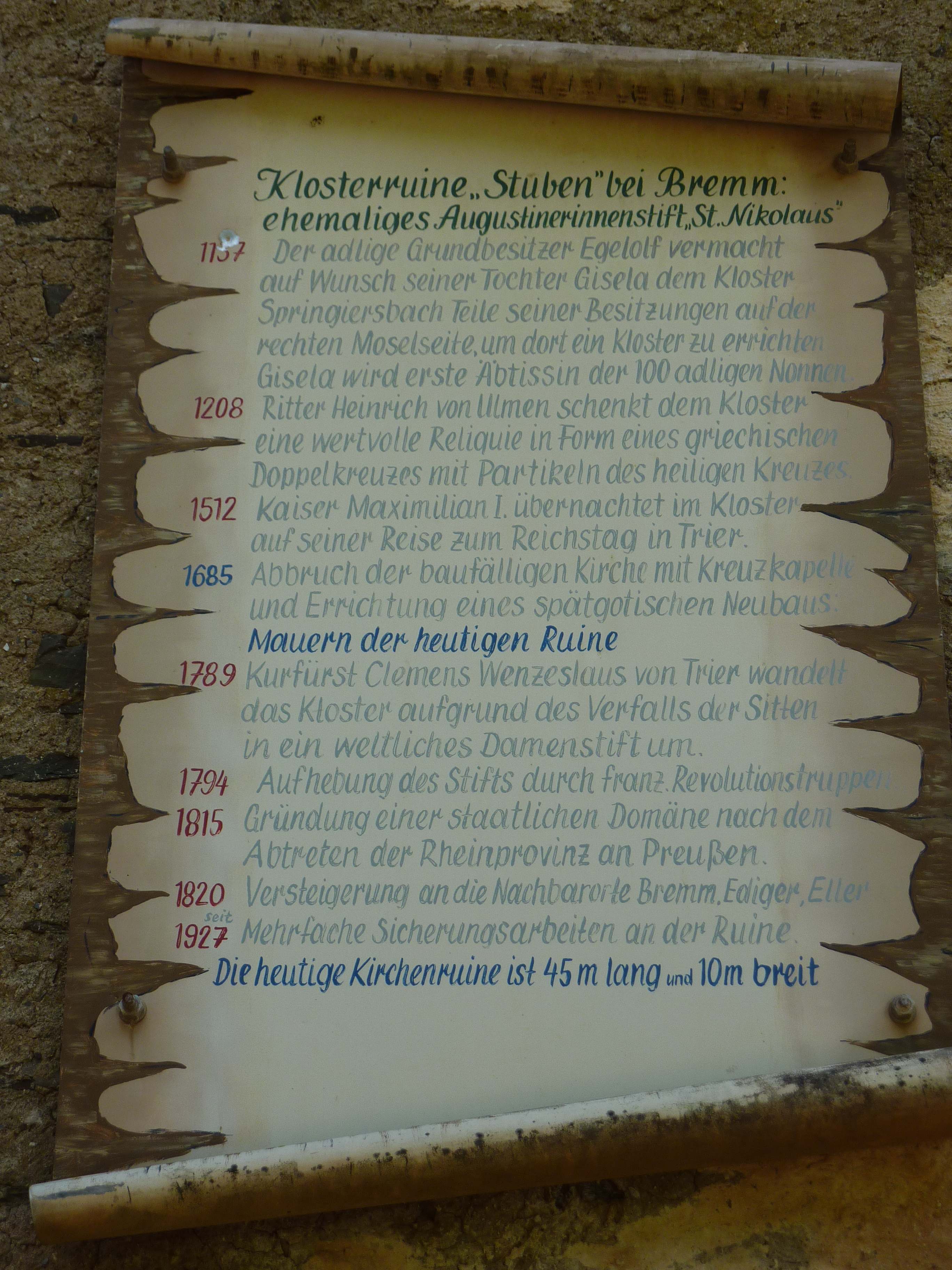 Wall chart at monastery ruins Stuben near Bremm at Moselle